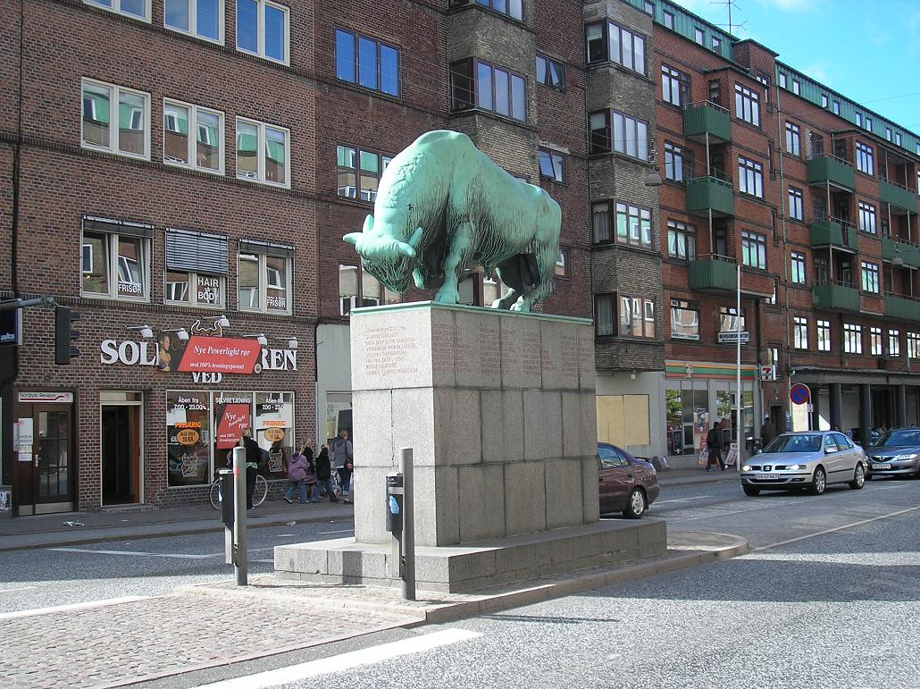 The Cimbrian Bull, a sculpture desgined by Anders Bundgaard and located in Aalborg, Denmark